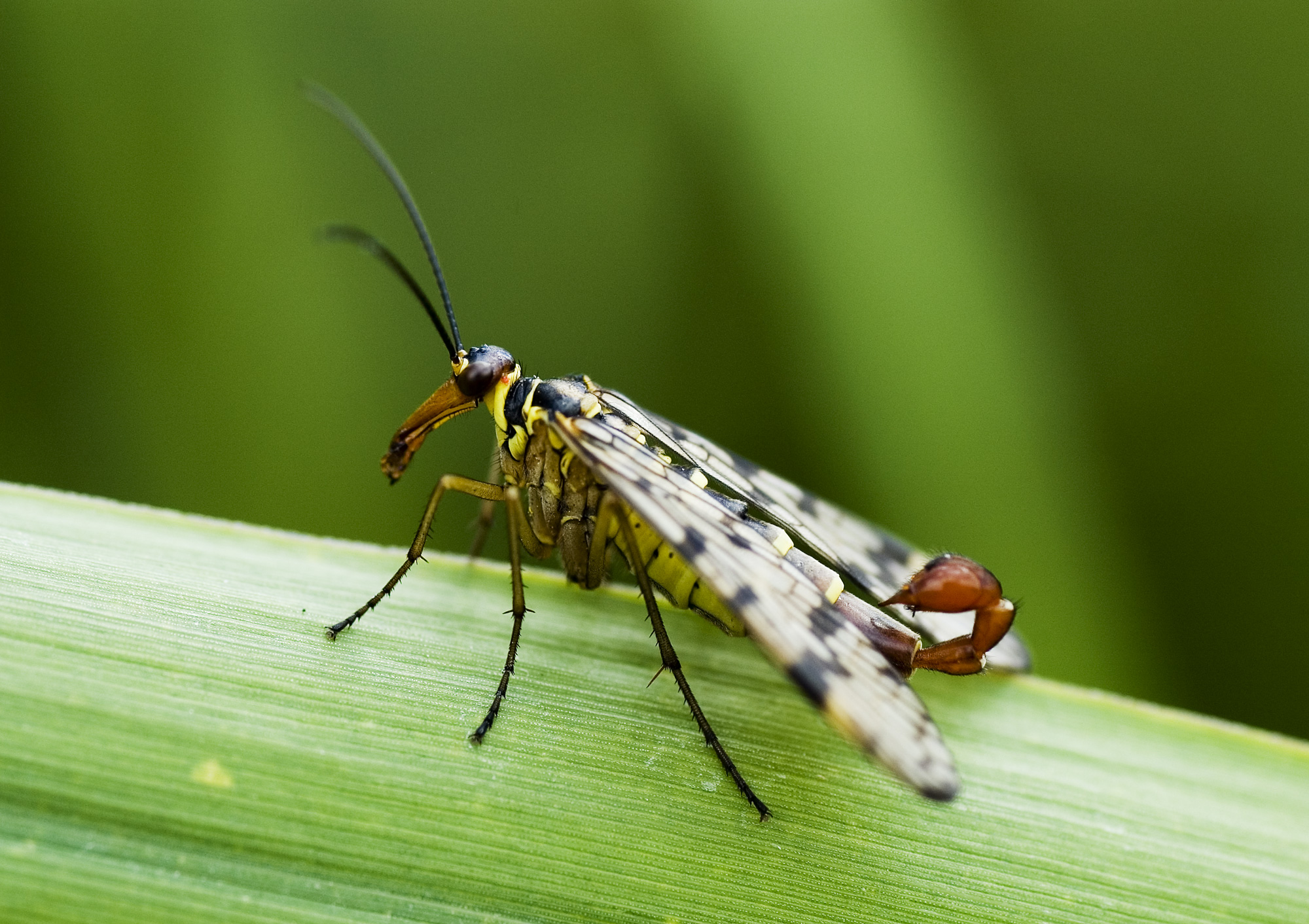 Common Scorpion Fly (Panorpa communis), male specimen